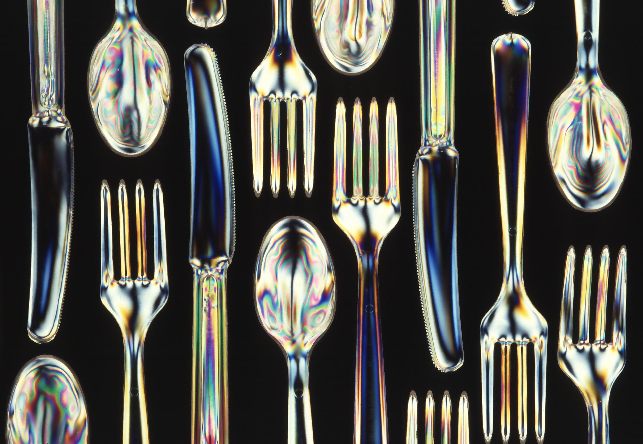 Knives, forks, and spoons made from a biodegradable starch-polyester material. The photo has been realized using the photoelasticity method, an experimental method which gets a fairly accurate picture of stress distribution even around abrupt discontinuities in a material. When a ray of plane polarised light is passed through a photoelastic material, it gets resolved along the two principal stress directions and each of these components experiences different refractive indices. The difference in the refractive indices leads to a relative phase retardation between the two component waves. The setup used to photograph this photo was probably composed of: A regular light source, with a quarter-wave plate installed to polarize the emerging light A regular photo camera, with a quarter-wave plate installed in front of the lens Light and camera being installed and oriented in the same direction, the two quarter-wave plates were turned with the polarizing axis in the same direction.